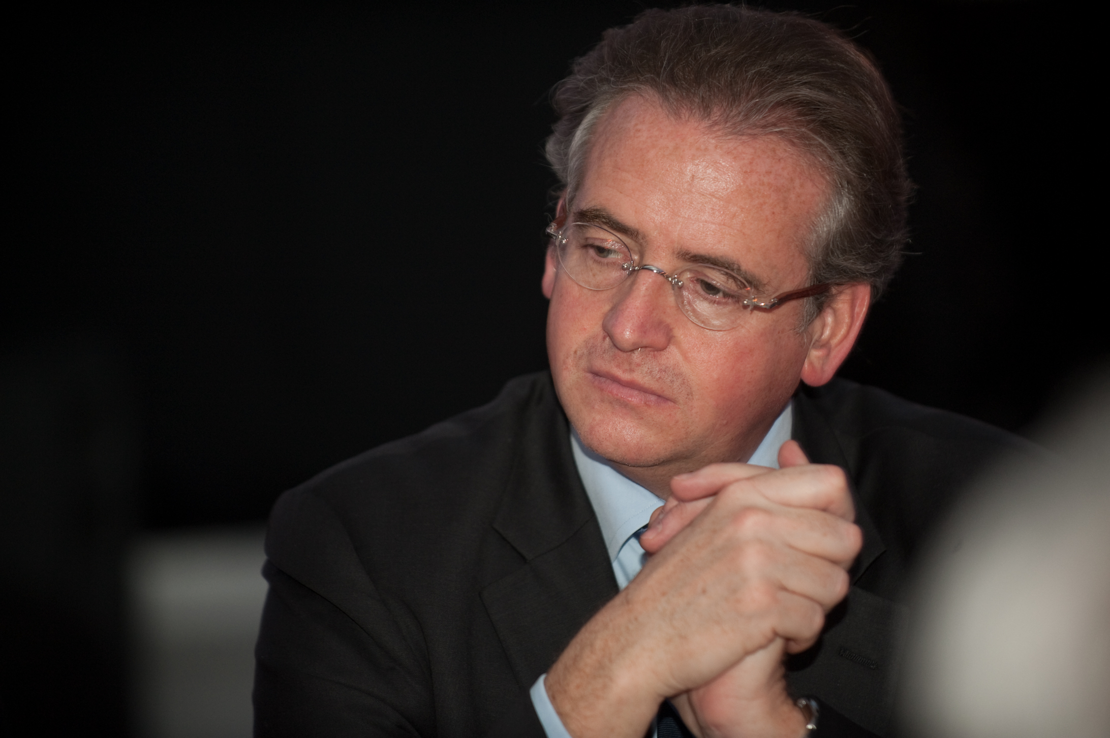 portrait of Pierre Delval